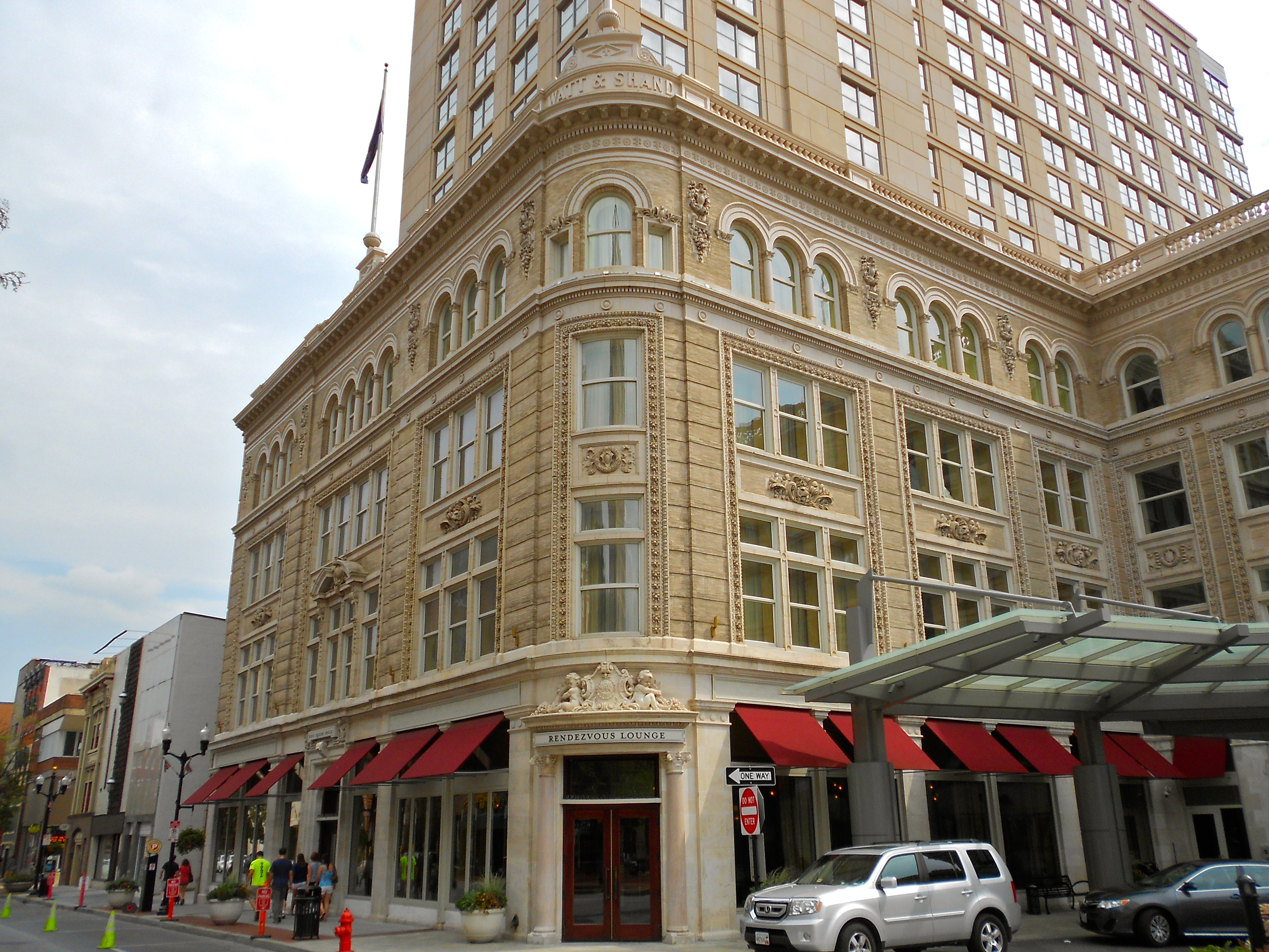 Watt & Shand Department Store. Removed from the NRHP, likely because of the fancy new hotel developed behind and inside it.